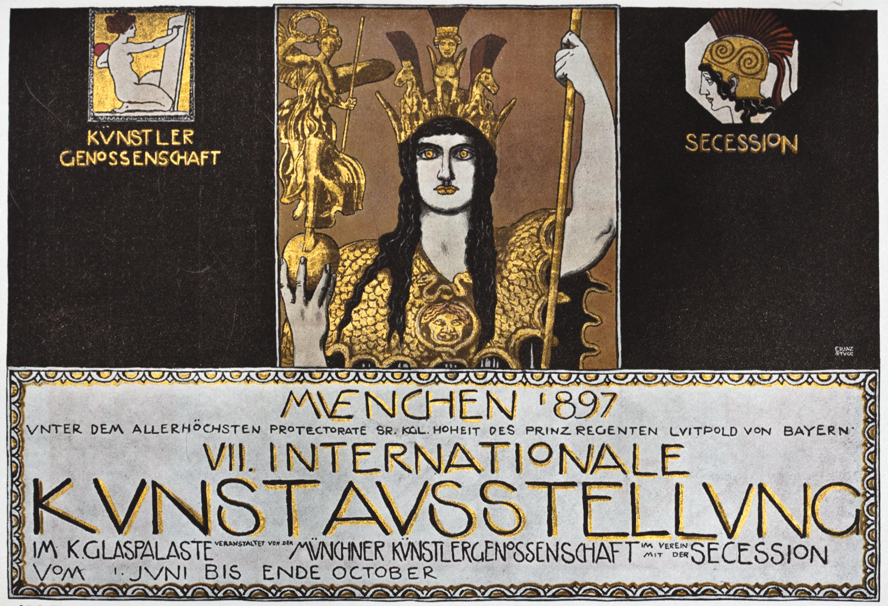 Poster of the 7th International Art Exhibition in Munich, Germany, in summer 1898